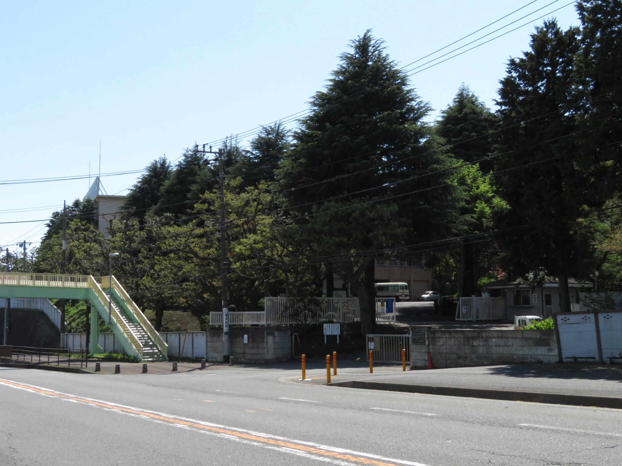 Main gate of Misono Jogakuin in Fujisawa City, Kanagawa Prefecture, Japan